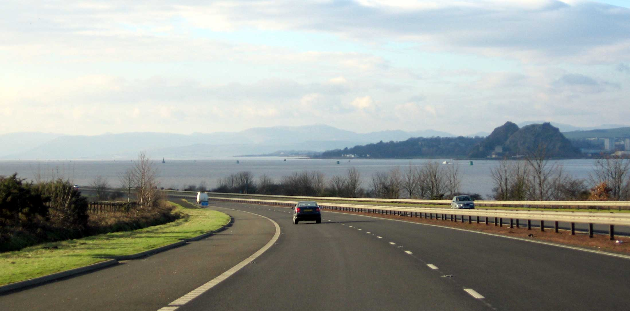 The River Clyde, Scotland. seen from the M8 motorway looking west towards the Firth of Clyde to the left, with Dumbarton to the right dominated by Dumbarton Rock.